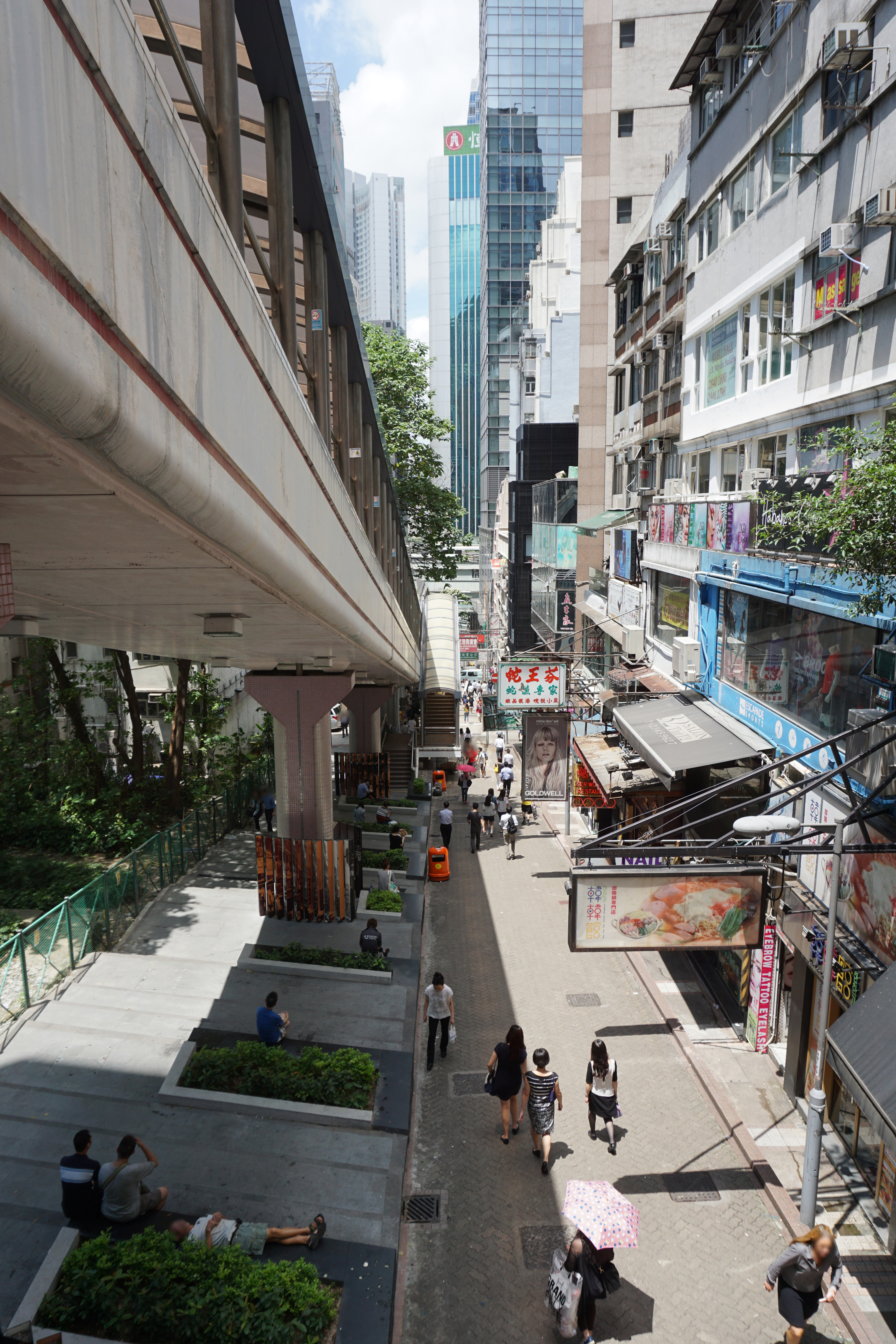 Cochrane Street in Central, Hong Kong.